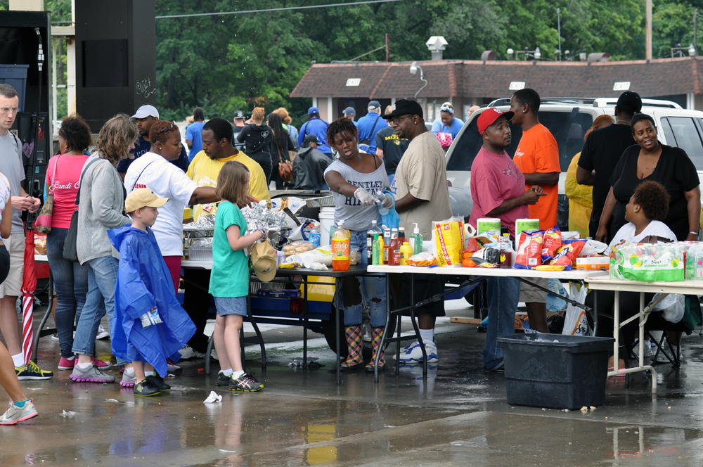 Serving food.